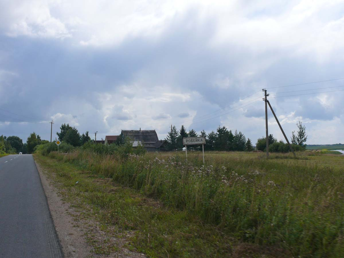 Robeika village. Novgorodsky district, Novgorod oblast, Russia